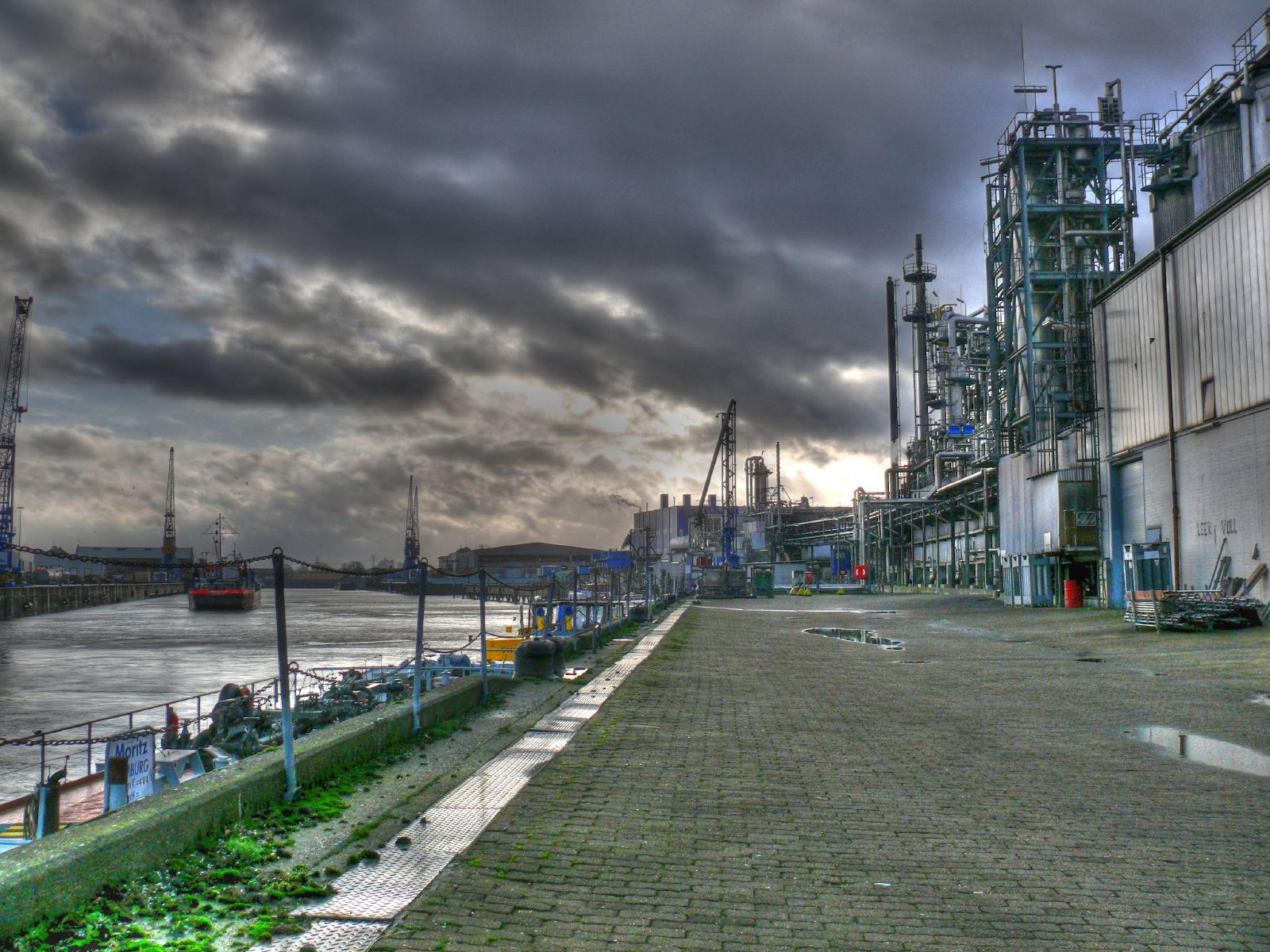 Sasol, Hamburg, Germany. Original description: I don't know if we were really allowed to be where we were....but anyway Sasol (that was the name of the chemical company) was a good place to take pictures - even though these didn't turn out as good